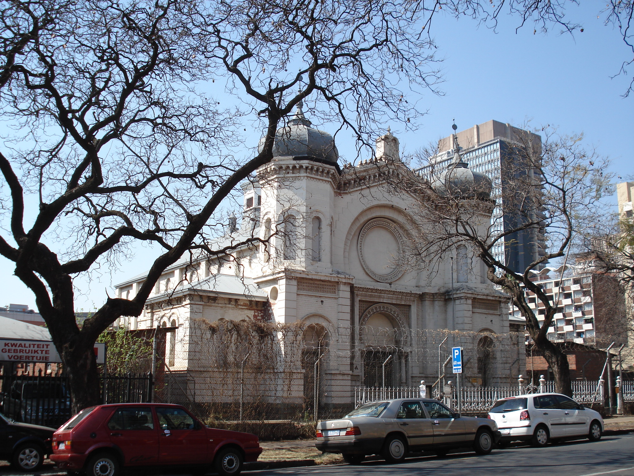 This media shows a South African Protected Site with SAHRA file reference 9/2/258/0020.